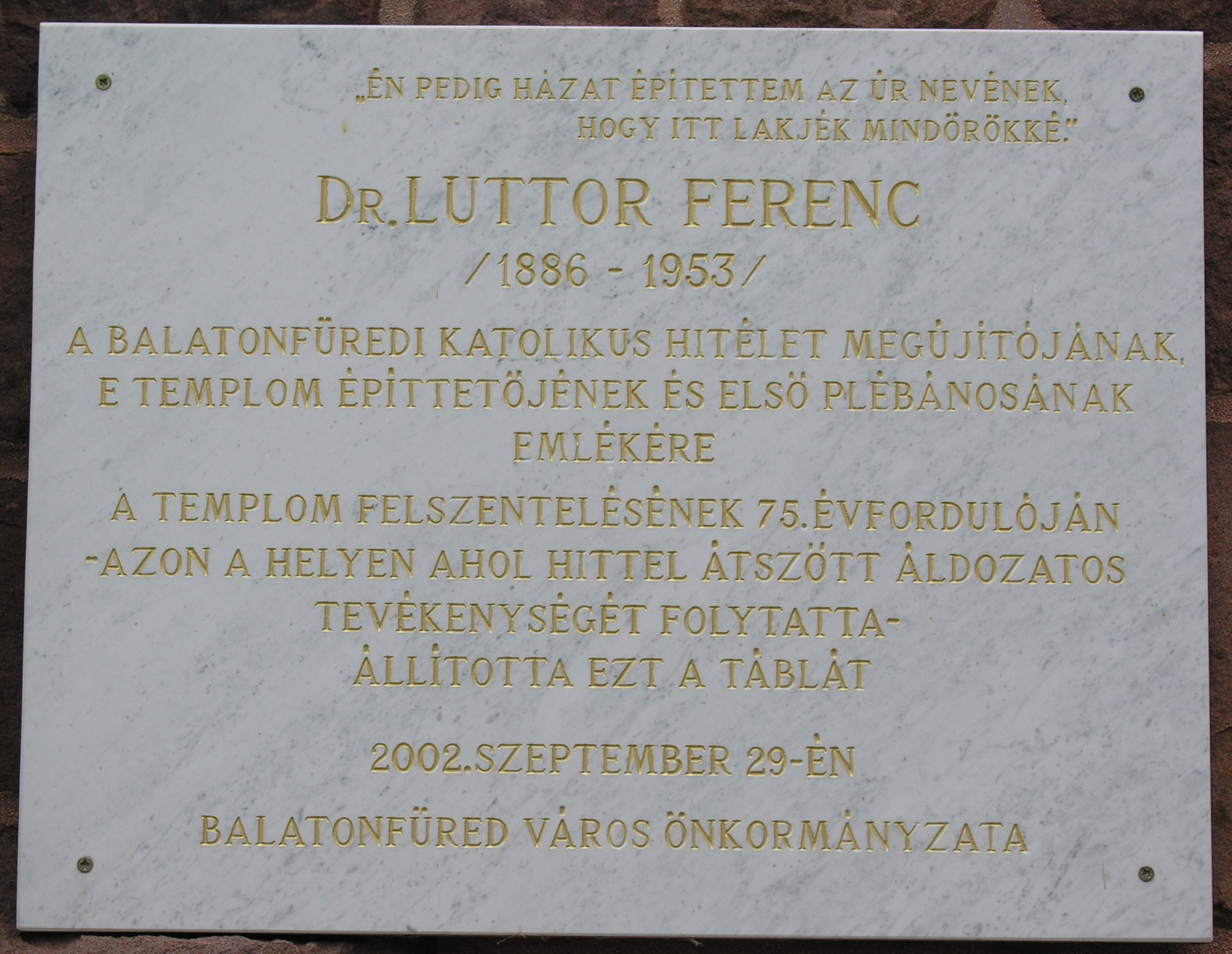 Commemorative plaque of Ferenc Luttor in Balatonfüred, Szent István Square (on the church side)